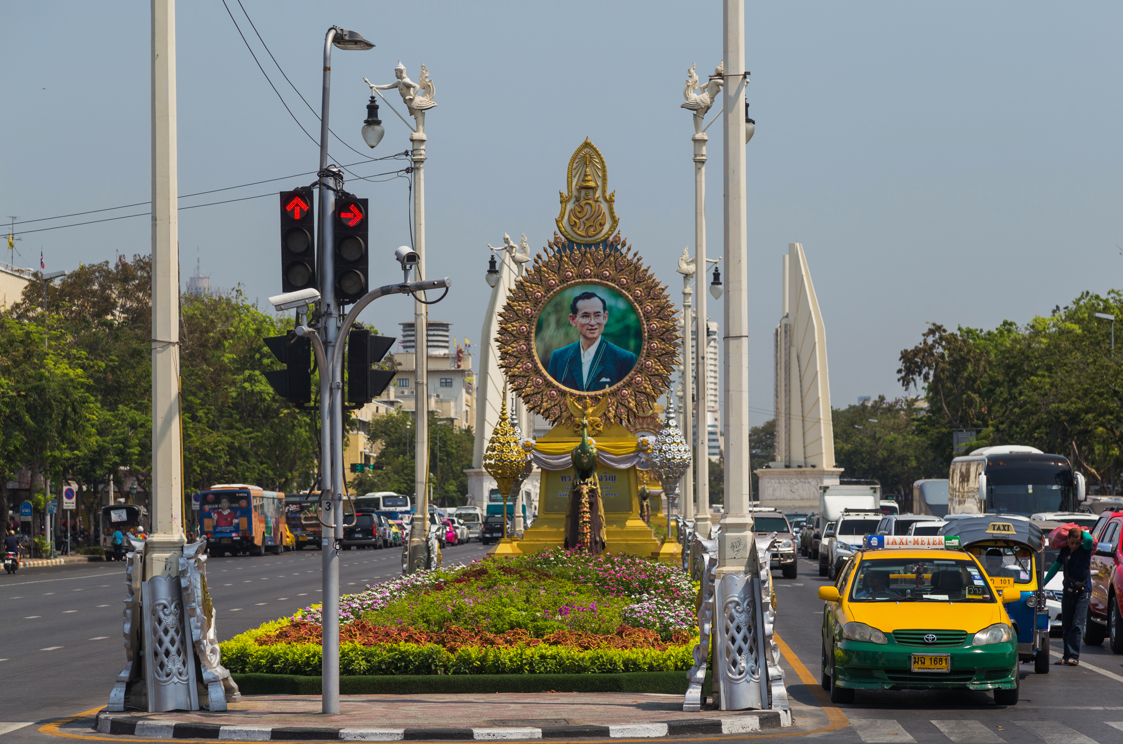 An altar with the image of King Rama IX. Ratchadamnoen Avenue. Phra Nakhon District, Bangkok, Thailand.